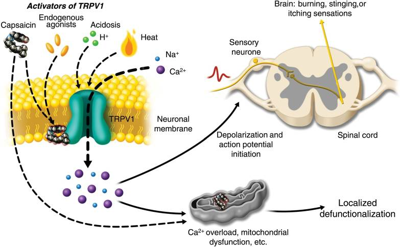 Activation of TRPV1 by capsaicin results in sensory neuronal depolarization, and can induce local sensitization to activation by heat, acidosis, and endogenous agonists. Topical exposure to capsaicin leads to the sensations of heat, burning, stinging, or itching. High concentrations of capsaicin or repeated applications can produce a persistent local effect on cutaneous nociceptors, which is best described as defunctionalization and constituted by reduced spontaneous activity and a loss of responsiveness to a wide range of sensory stimuli.